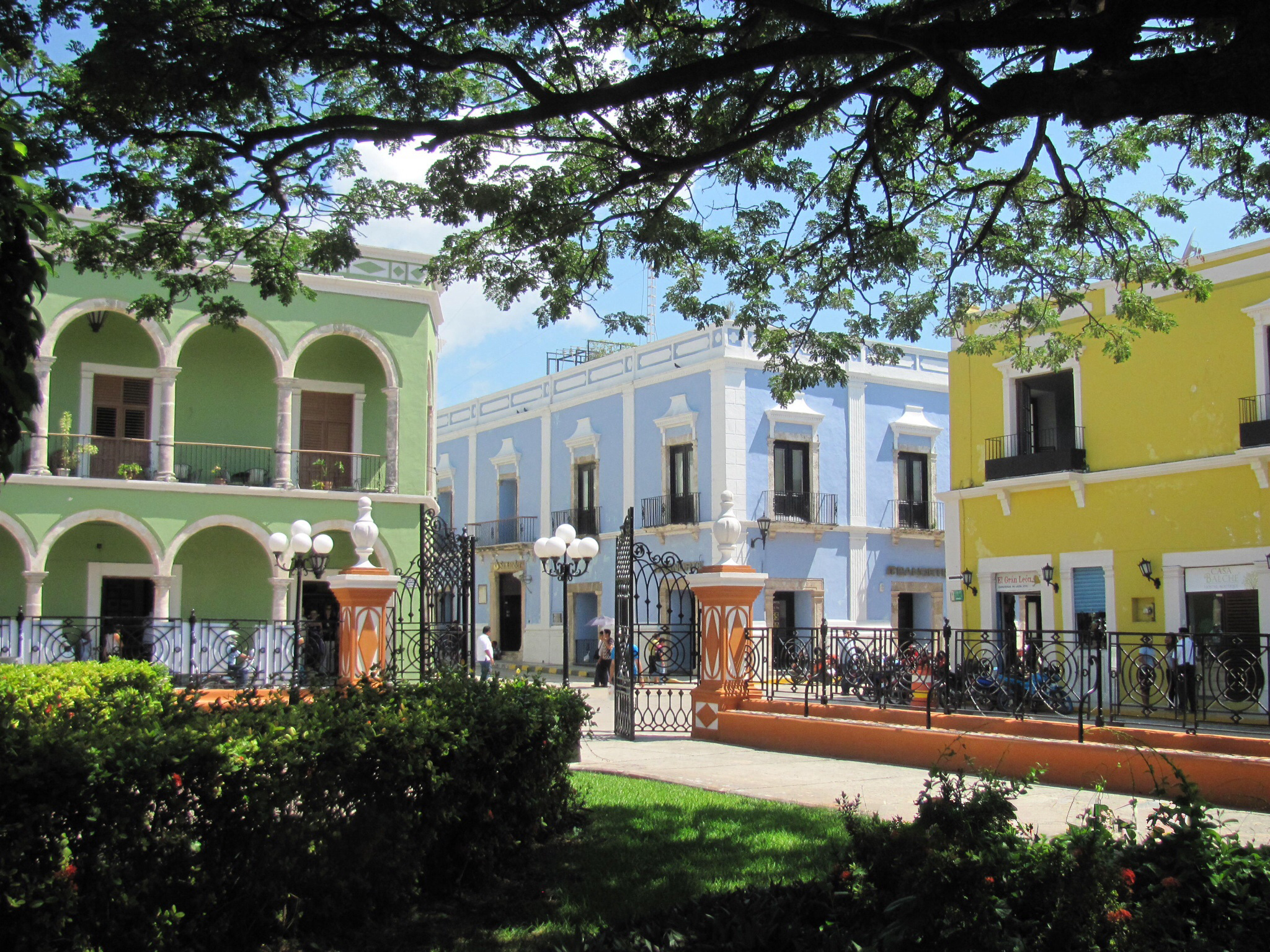 Campeche town